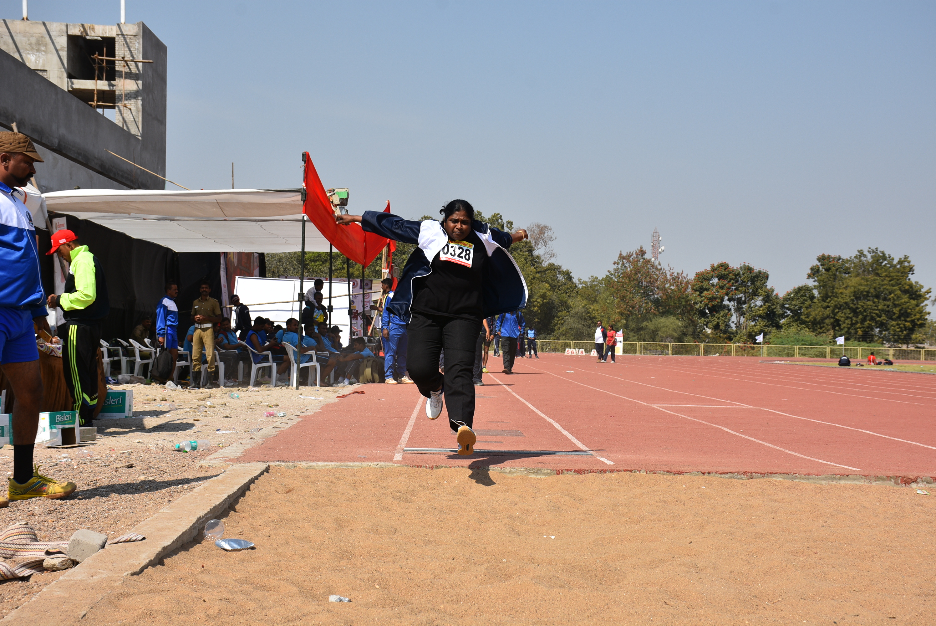 National Fire Games-2018